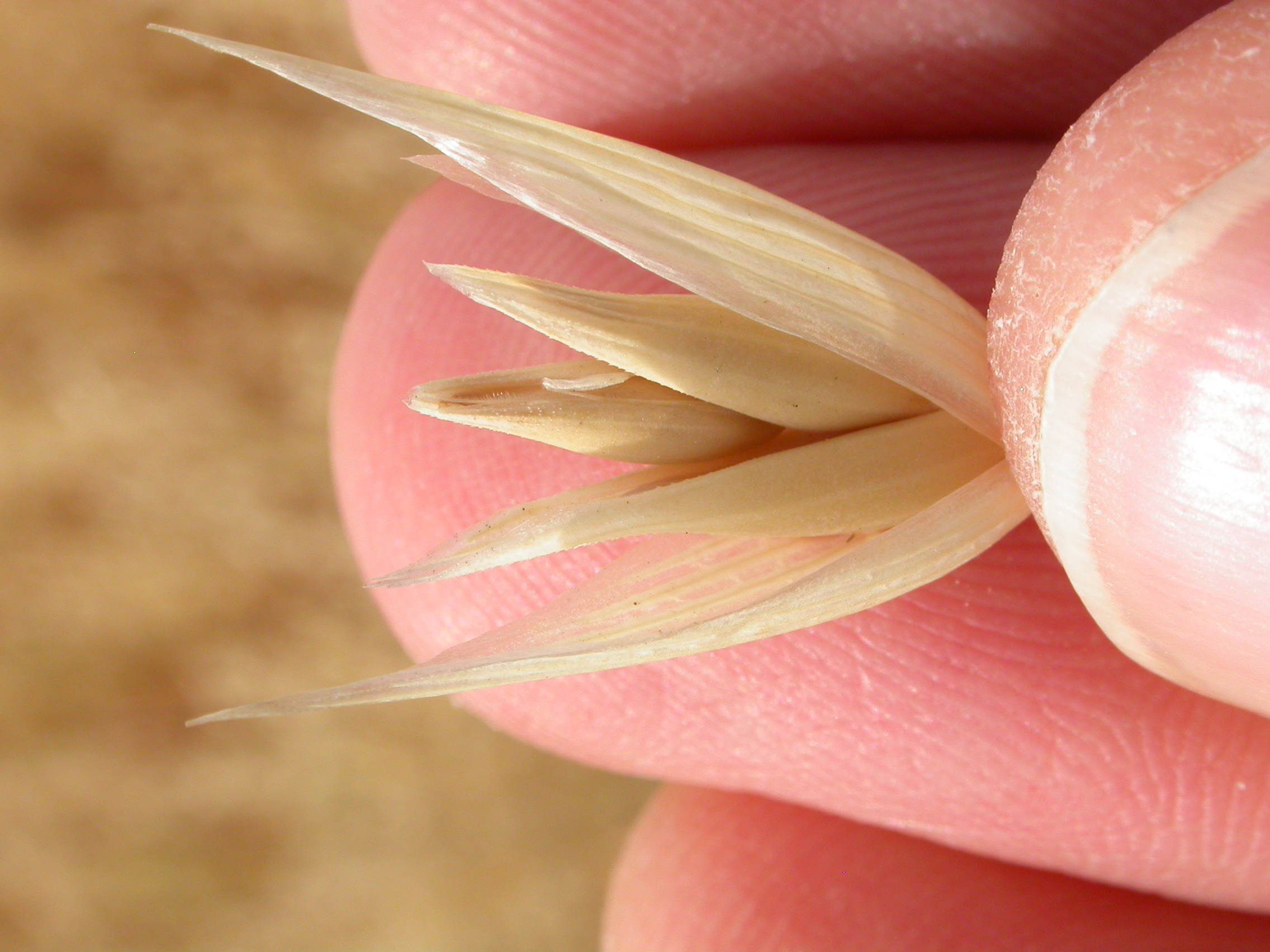 The large glumes enveloping 2-4 glabrous and mostly awnless florets characterized the spikelet of cultivated oats.